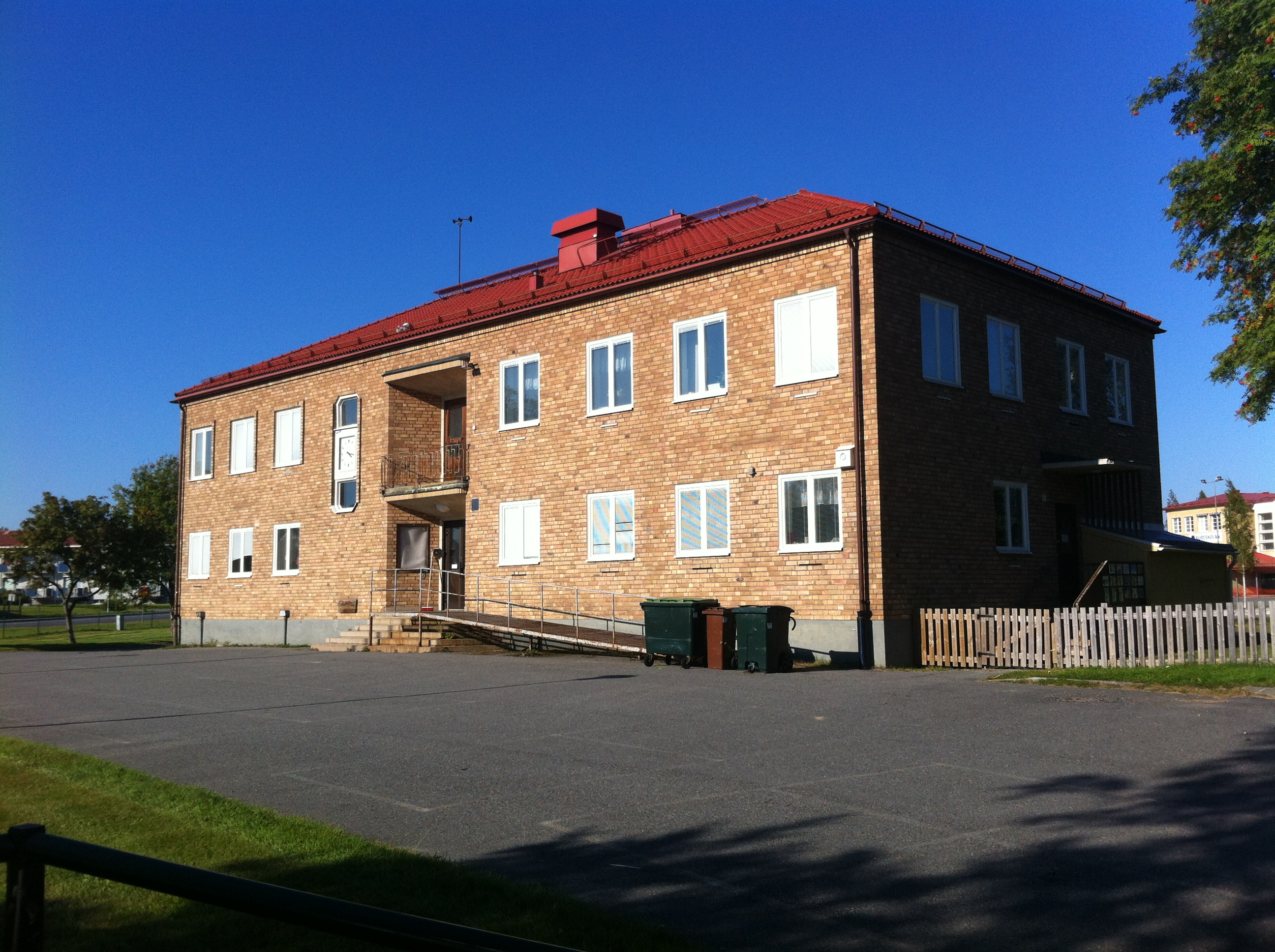 City Hall of Bureå Municipality(1914-1967), Västerbotten, Sweden. Built 1951.